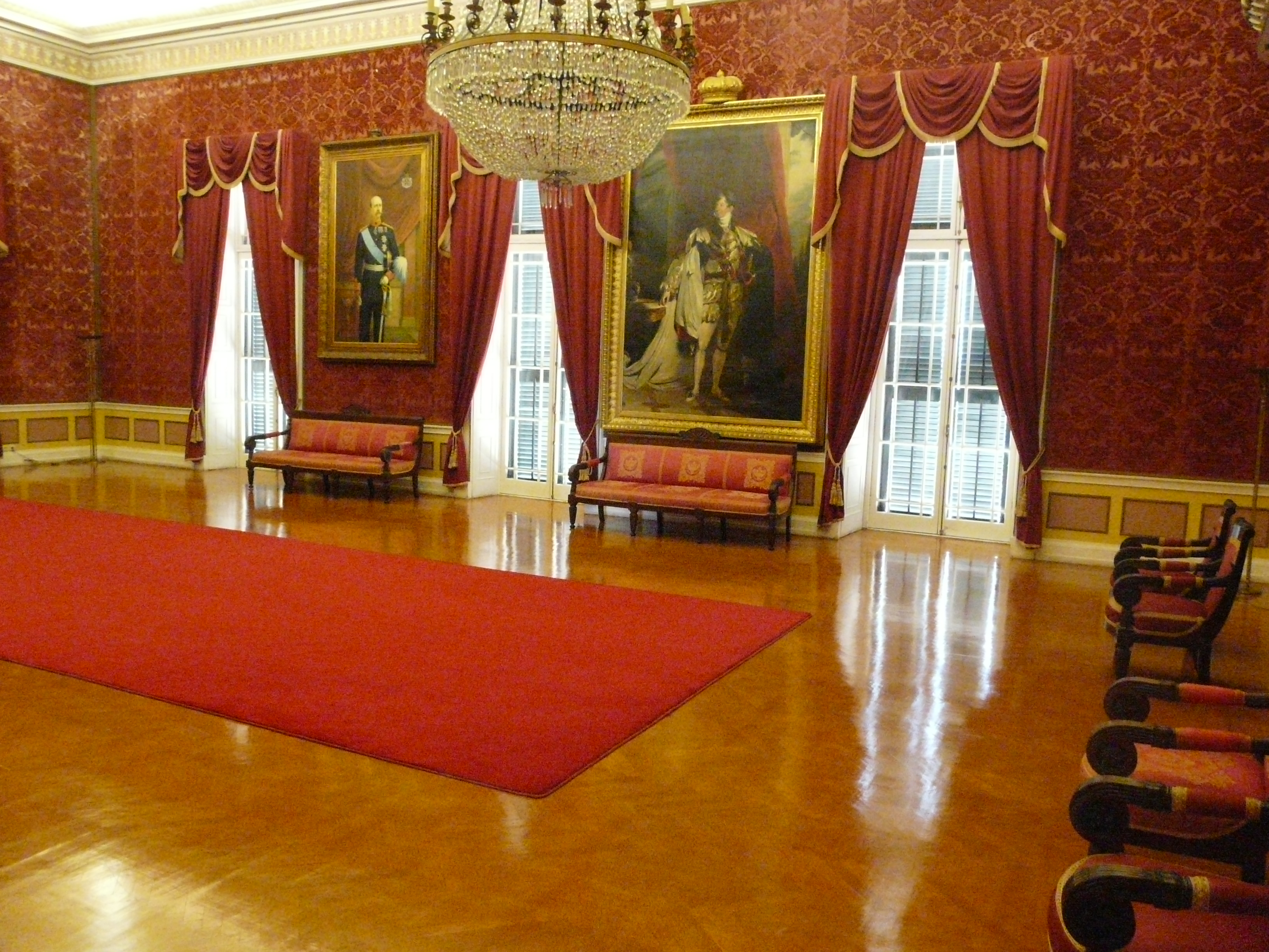 Museum of Asian art of Corfu. Corfu town.Corfu, Greece.